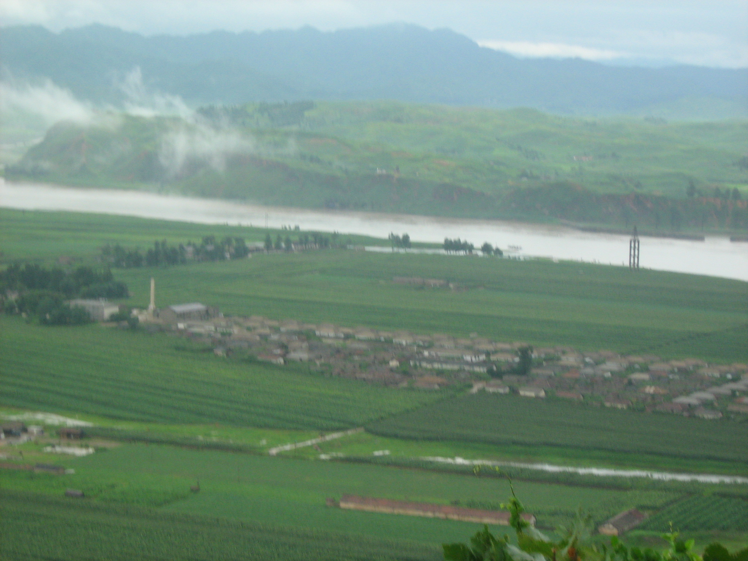 This shows a North Korea village in the Yalu River delta on the outskirts of Sinuiji.